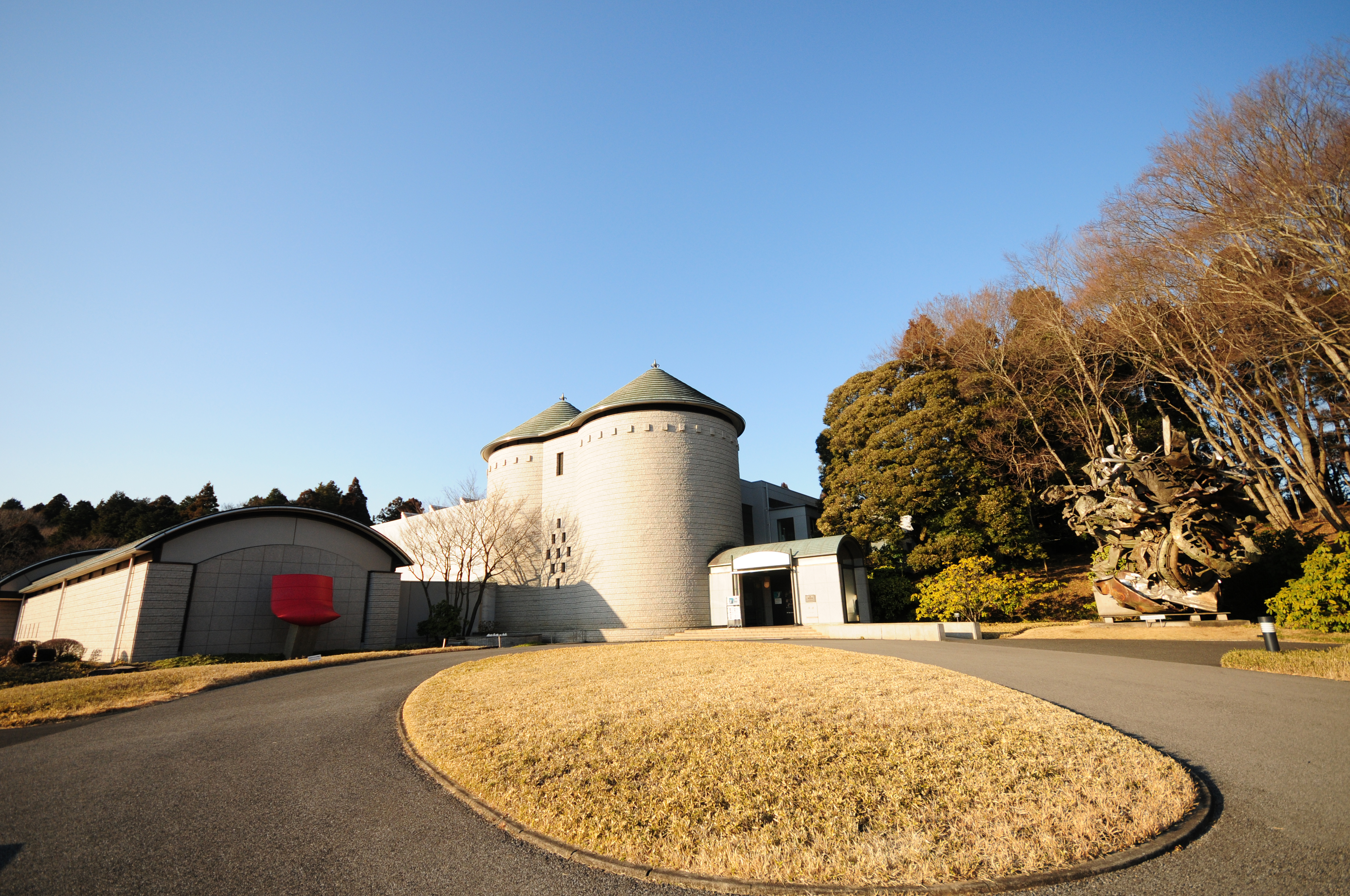 Kawamura Memorial DIC Museum of Art